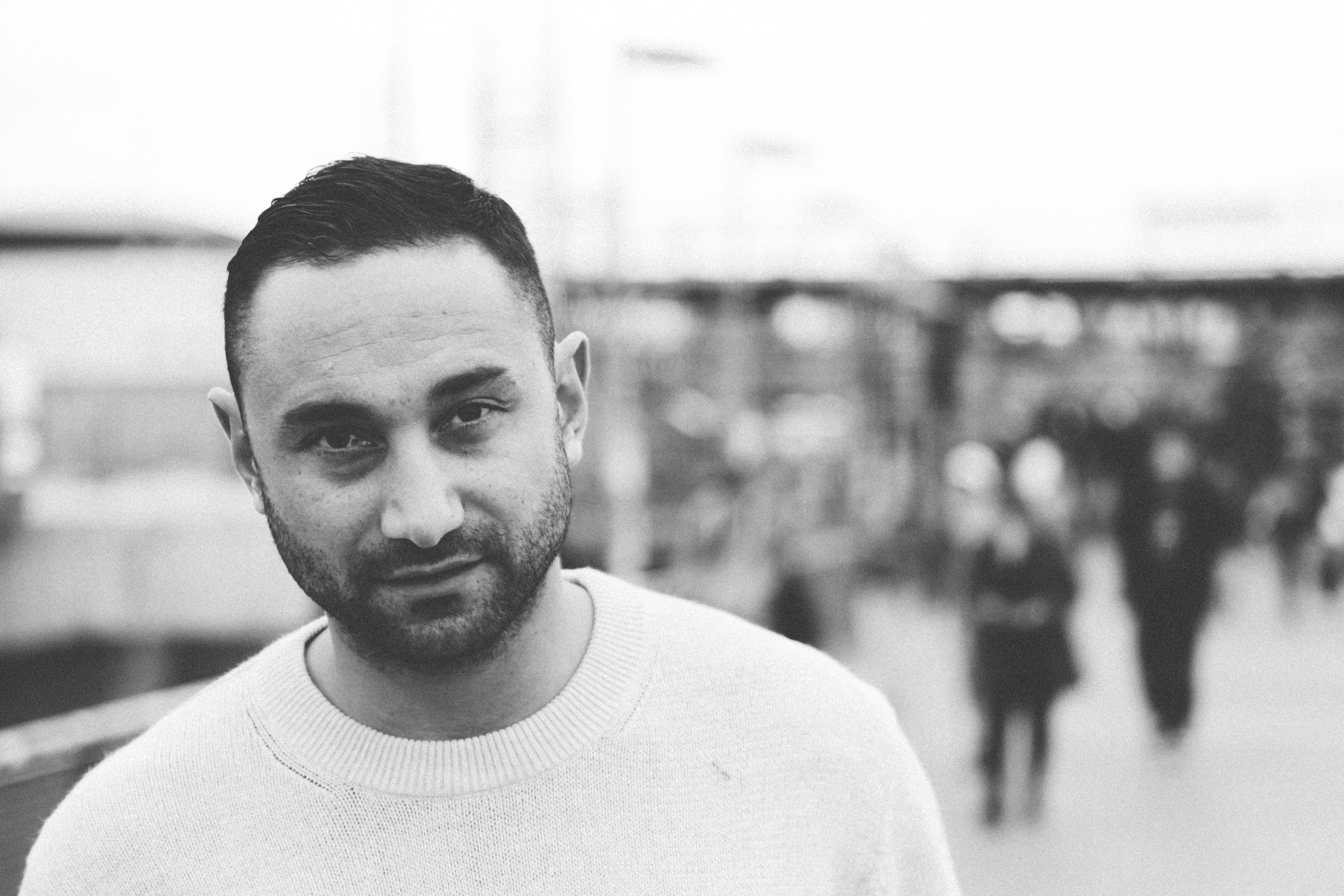 Deniz Cooper am Wiener Naschmarkt